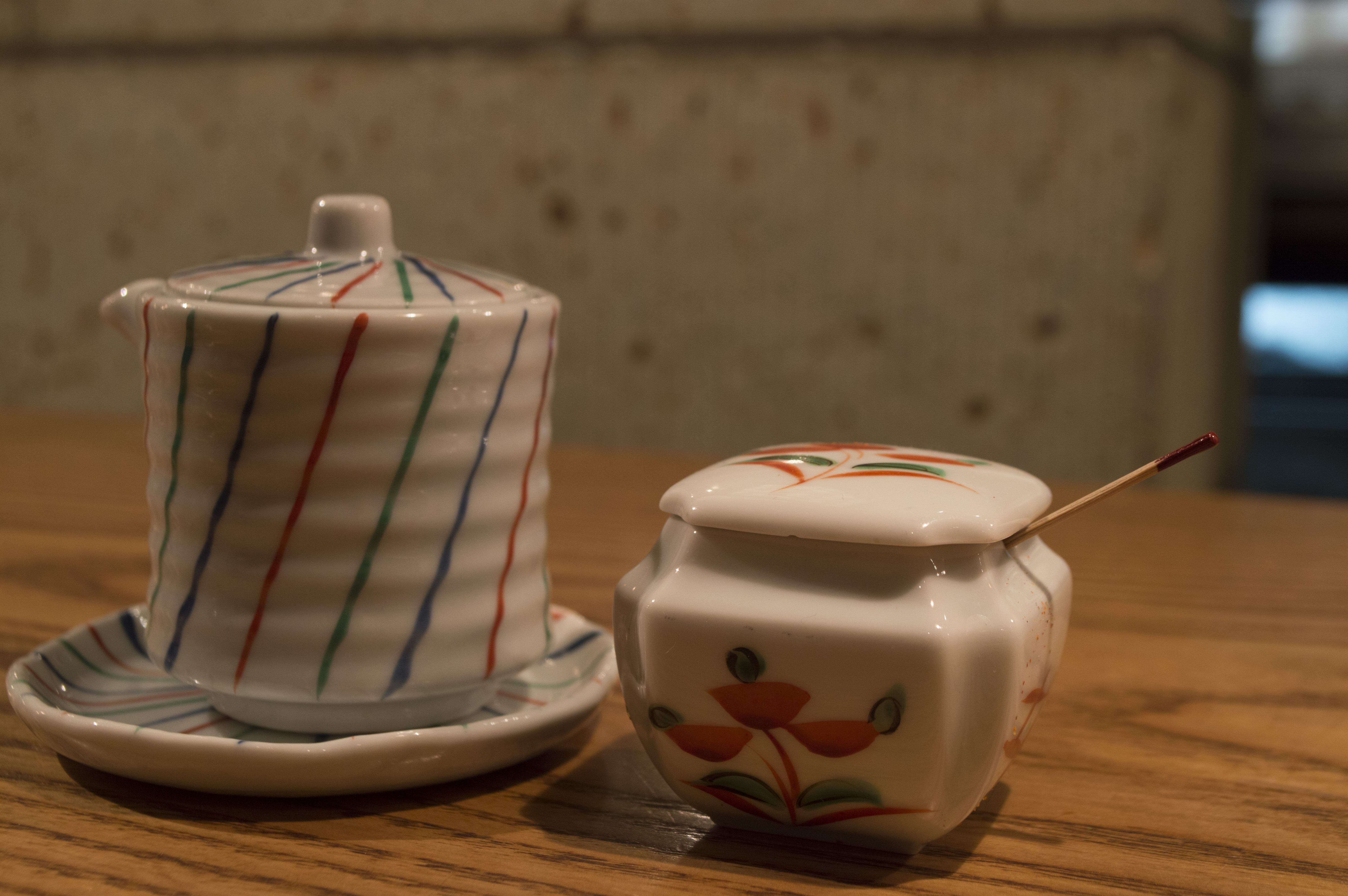 This picture shows how Japanese potteries used in daily lives.